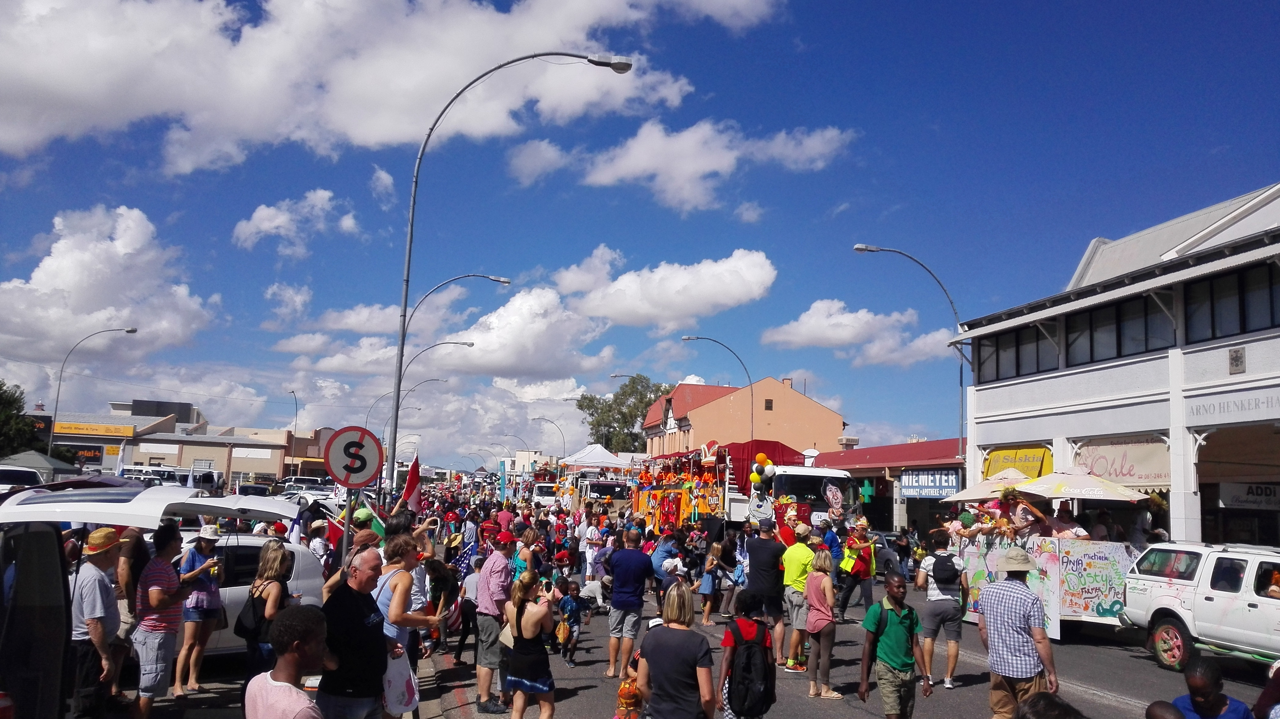 Windhoek Karneval Wika 2018